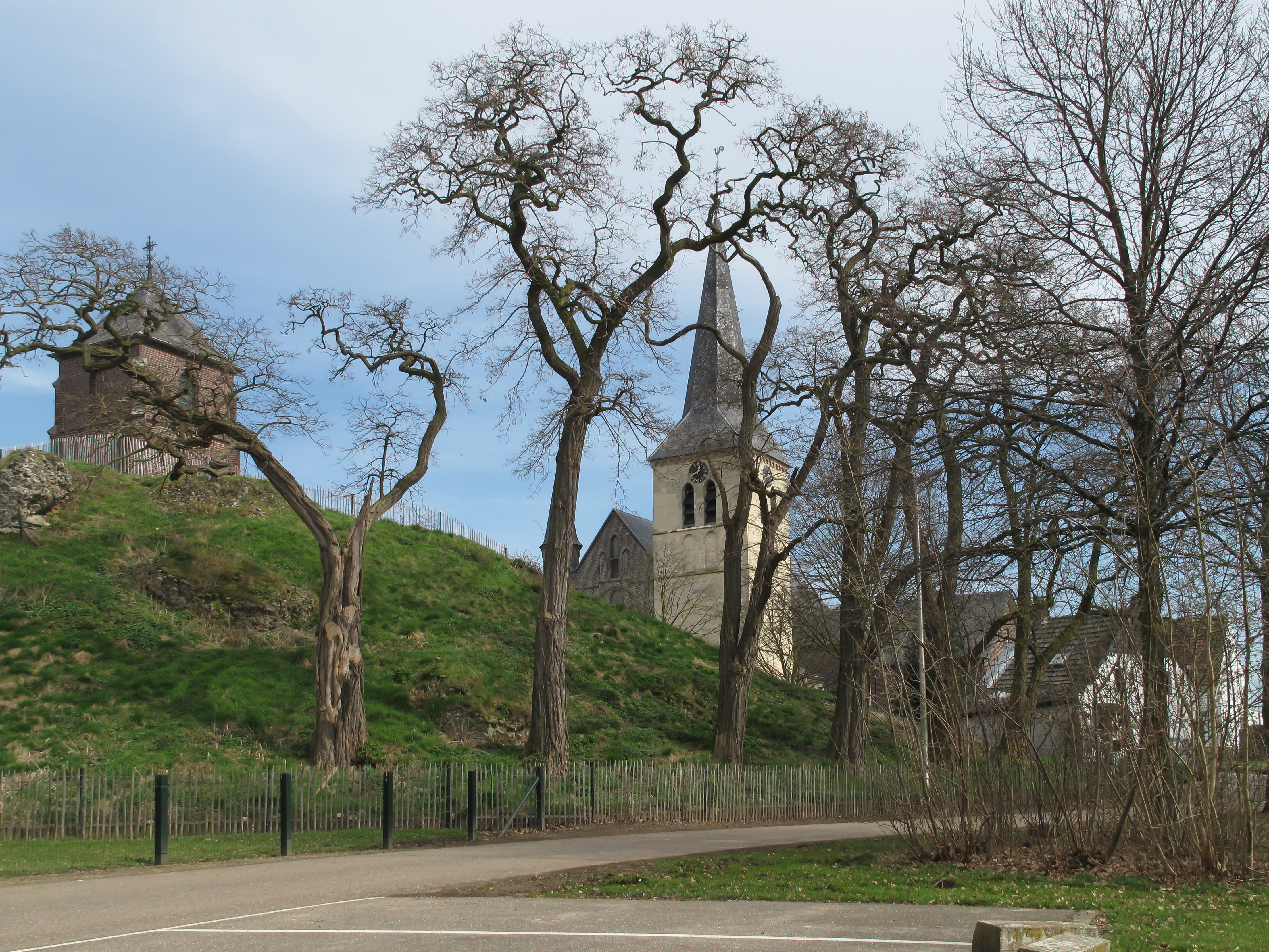 Kessenich, church (Sint Martinuskerk) in the street